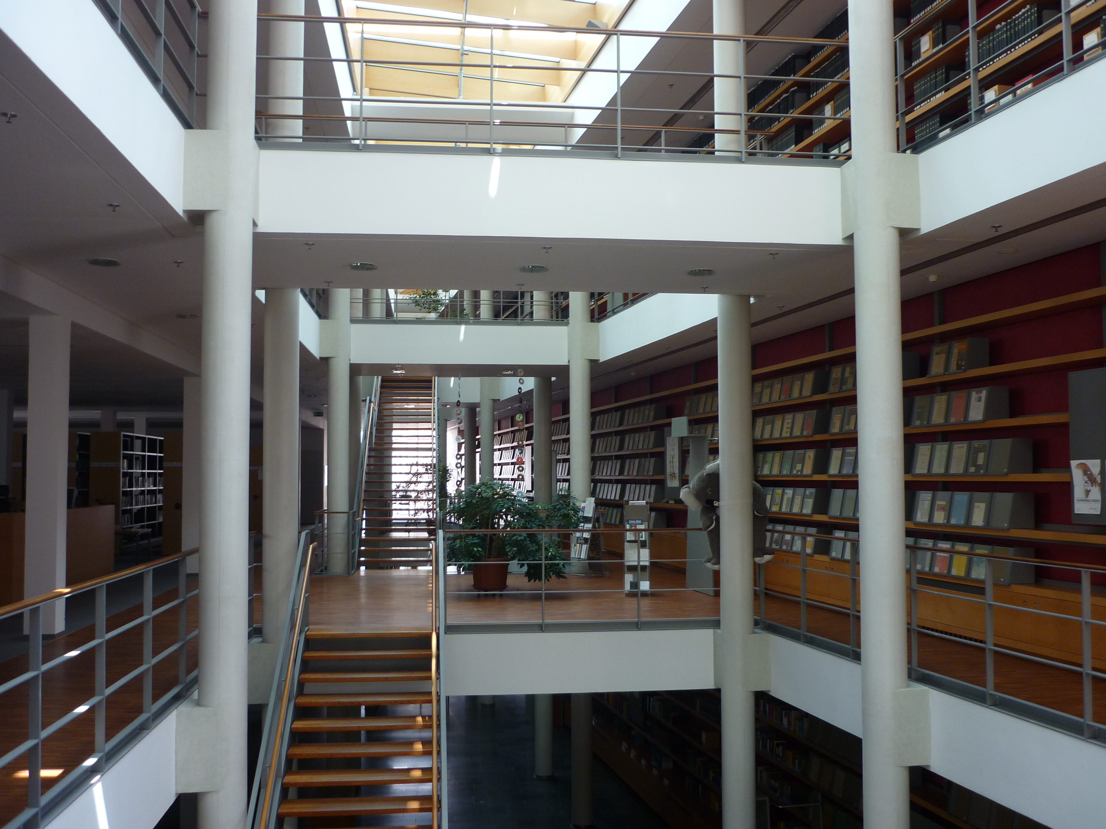 Library of the Federal Court of Justice of Germany, Karlsruhe – interior view